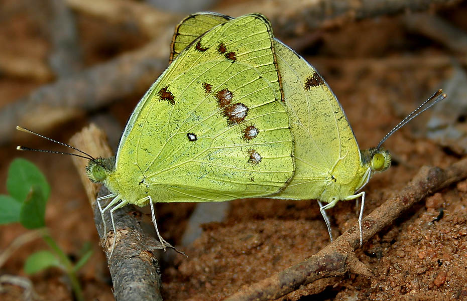 Description corrected as White Orange Tip Ixias marianne in Hyderabad, India.